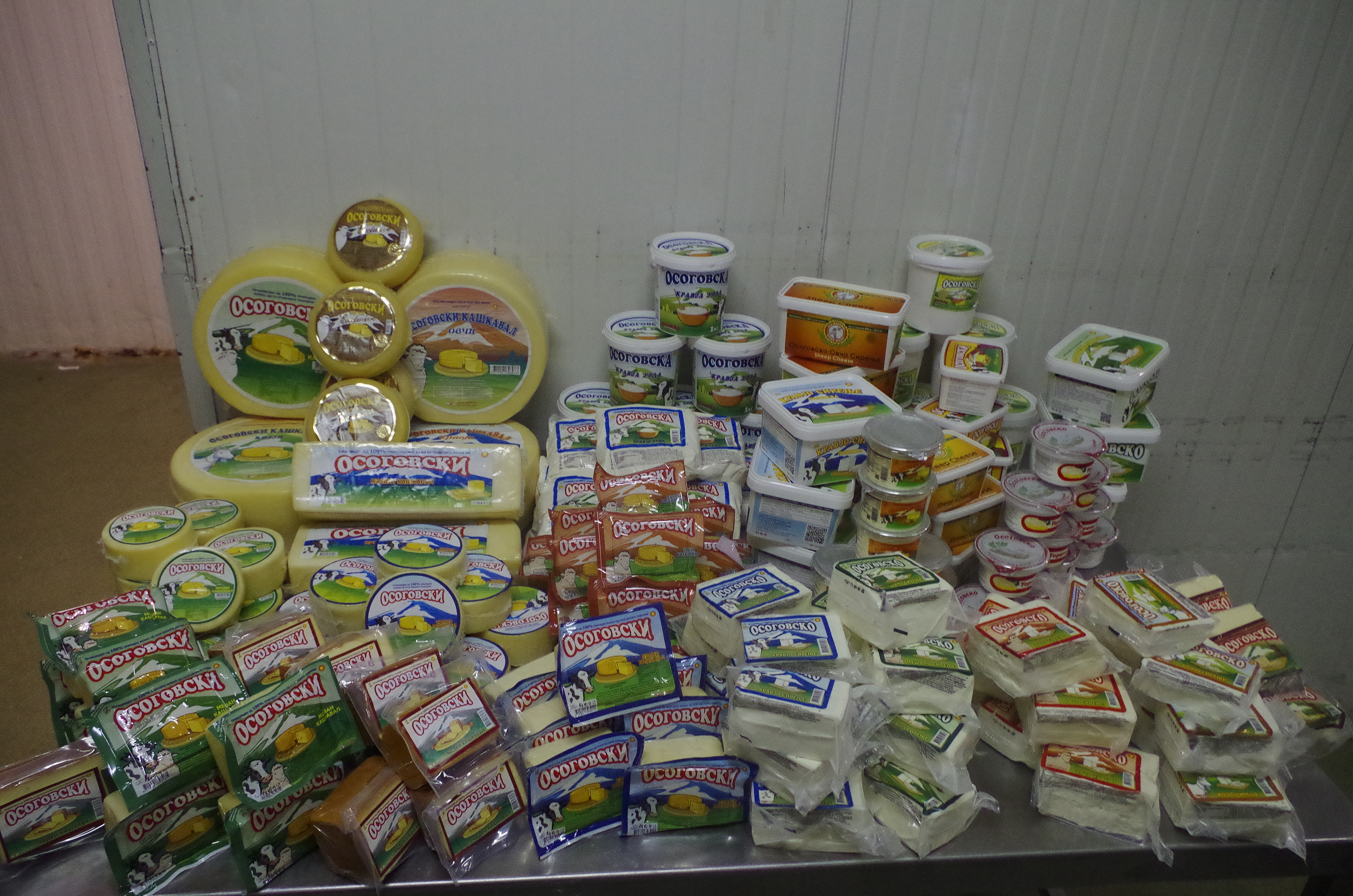 Dairy Osogovo Milk in Sokolarci, Macedonia